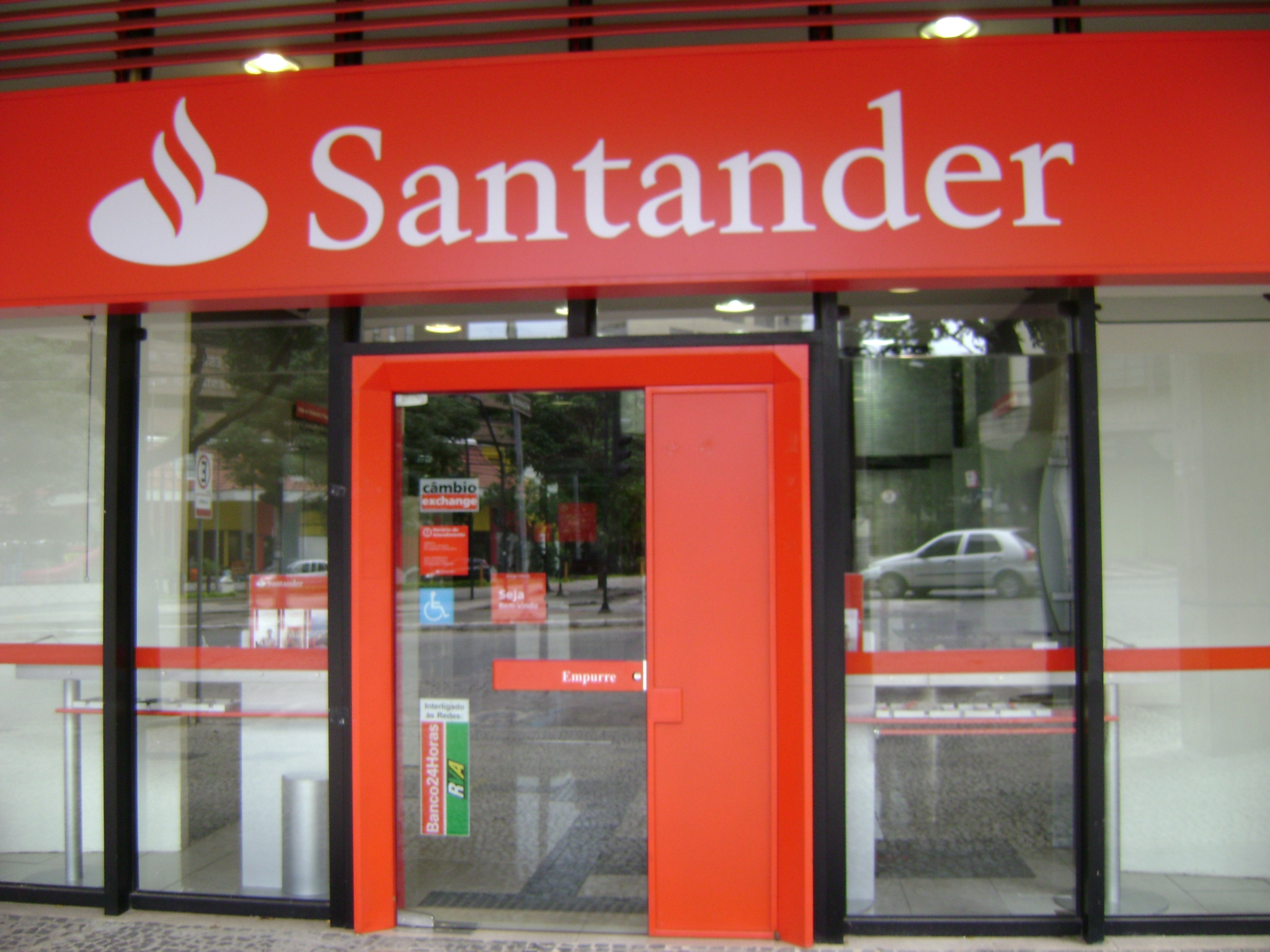 Agência do Banco Santander, na Avenida Álvares Cabral, em Belo Horizonte.